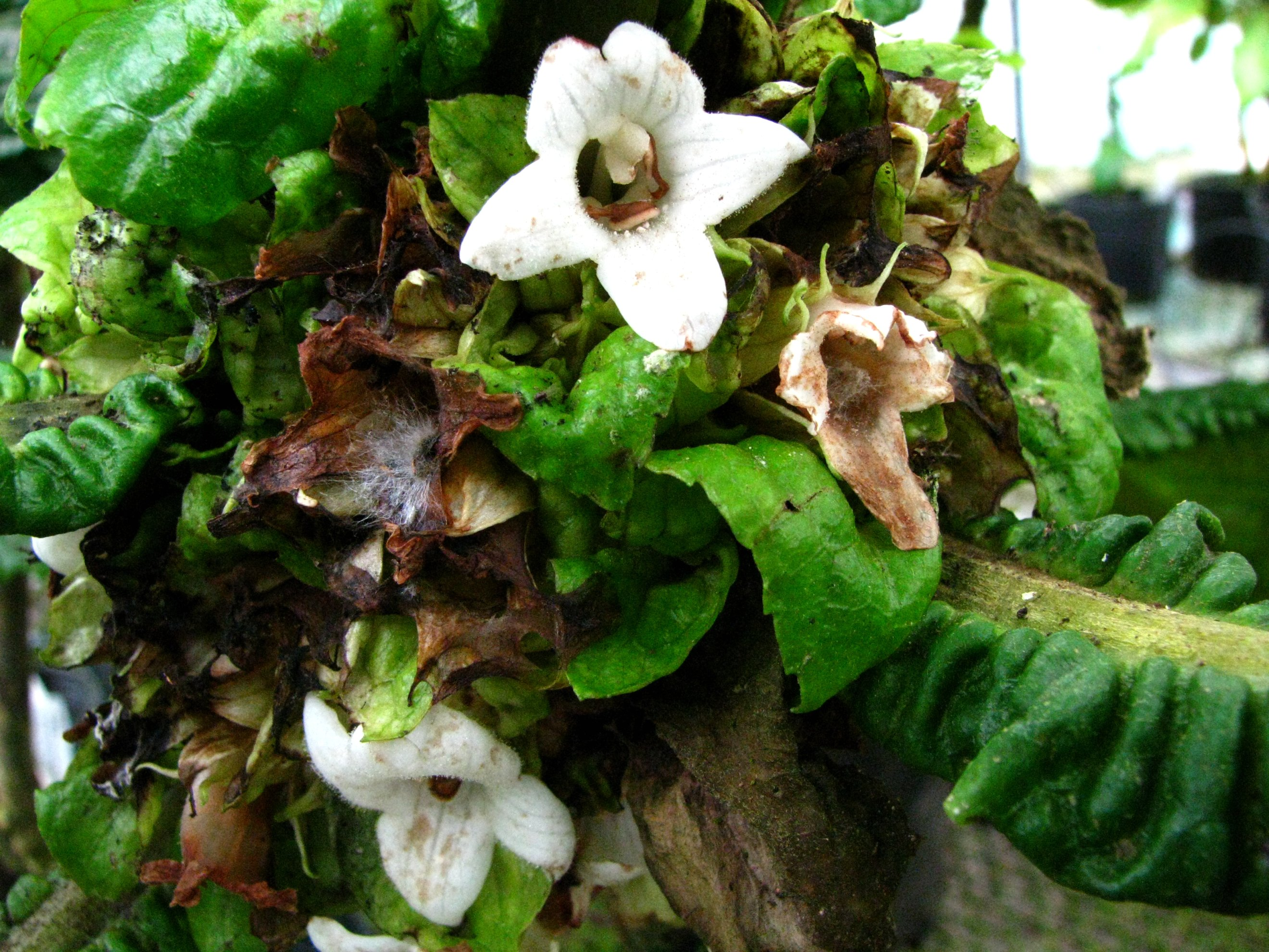 Māpele, haʻiwale, kanawao keʻokeʻo Gesneriaceae Endemic to the Hawaiian Islands (Kauaʻi only) Endangered Kauaʻi (Cultivated)